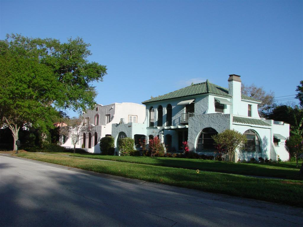 Houses in the Valencia Subdivision Residential District, Rockledge, Florida. March 24, 2007.